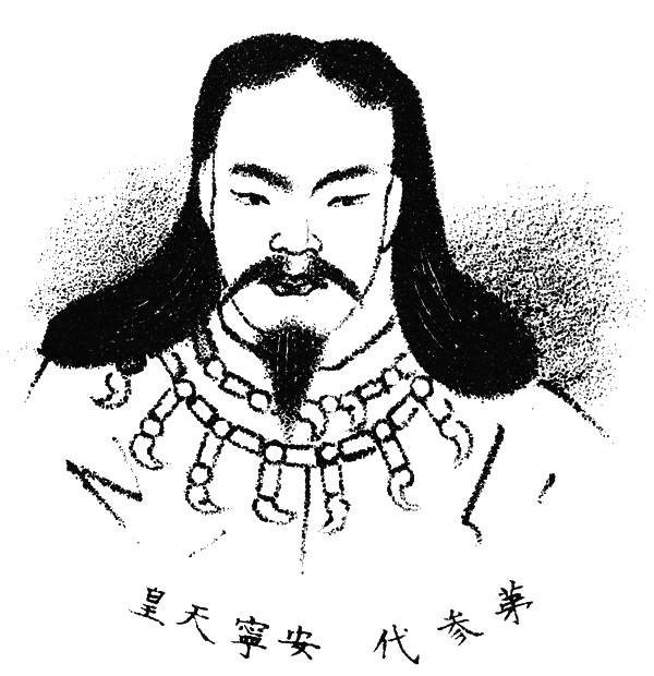 Emperor Annei, who was the 3rd emperor of Japan